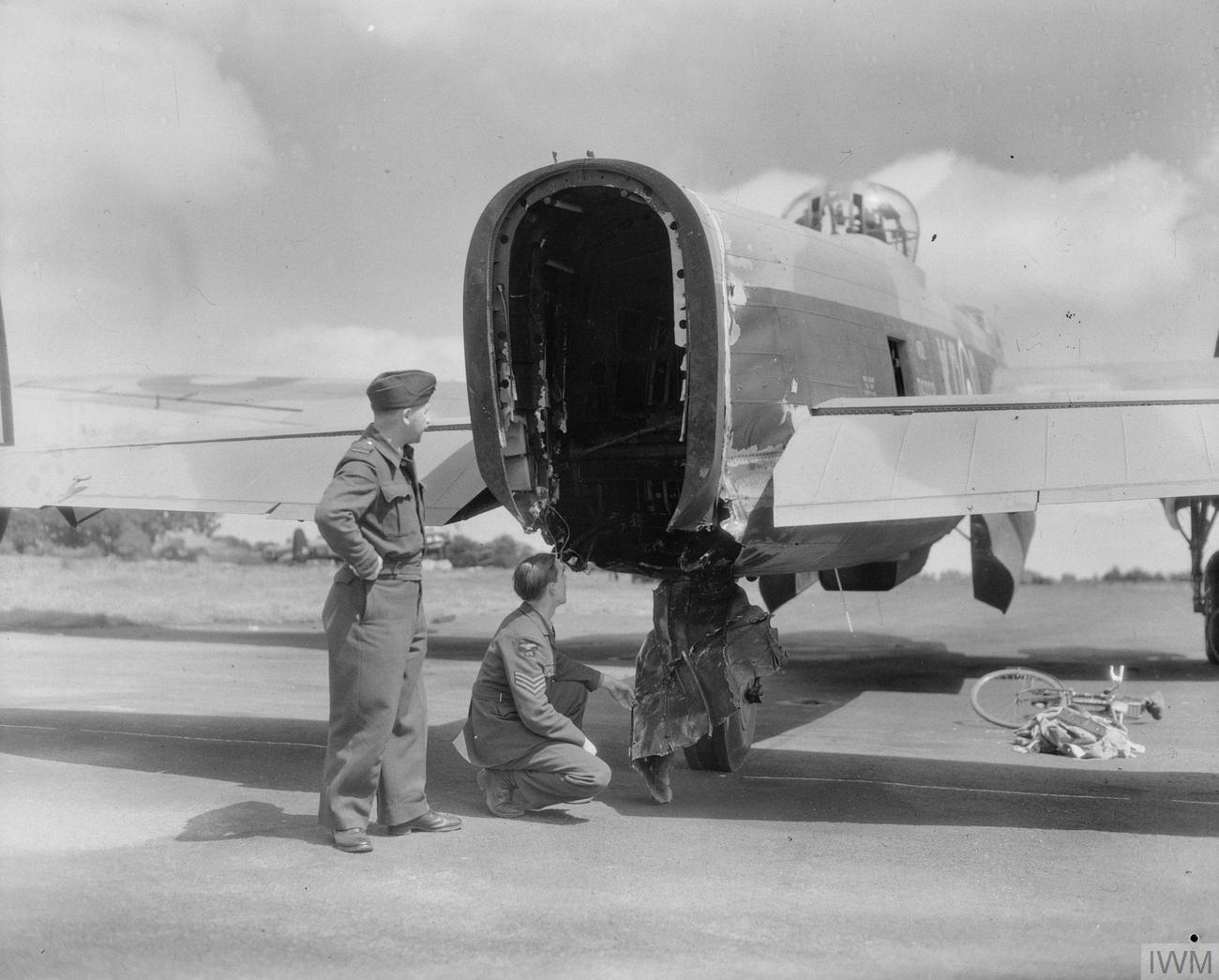 IWM caption : Back at their base, East Wretham, Norfolk, two members of the crew of Avro Lancaster B Mark II, DS669 'KO-L', of No. 115 Squadron RAF, examine the rear of their aircraft, where the rear turret, with its unfortunate gunner, was sheared off by bombs dropped from an aircraft flying above, during a raid on Cologne on the night of 28/29 June 1943.